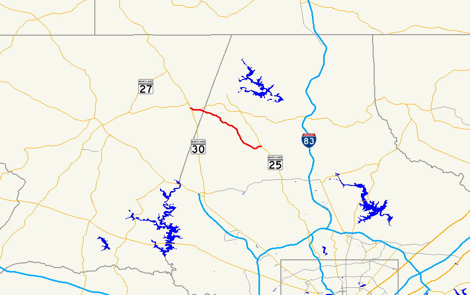 Map of Maryland Route 88